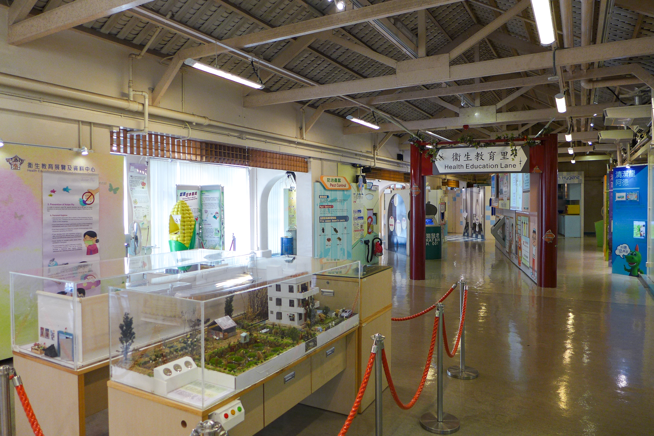 Health Education Exhibition & Resource Centre